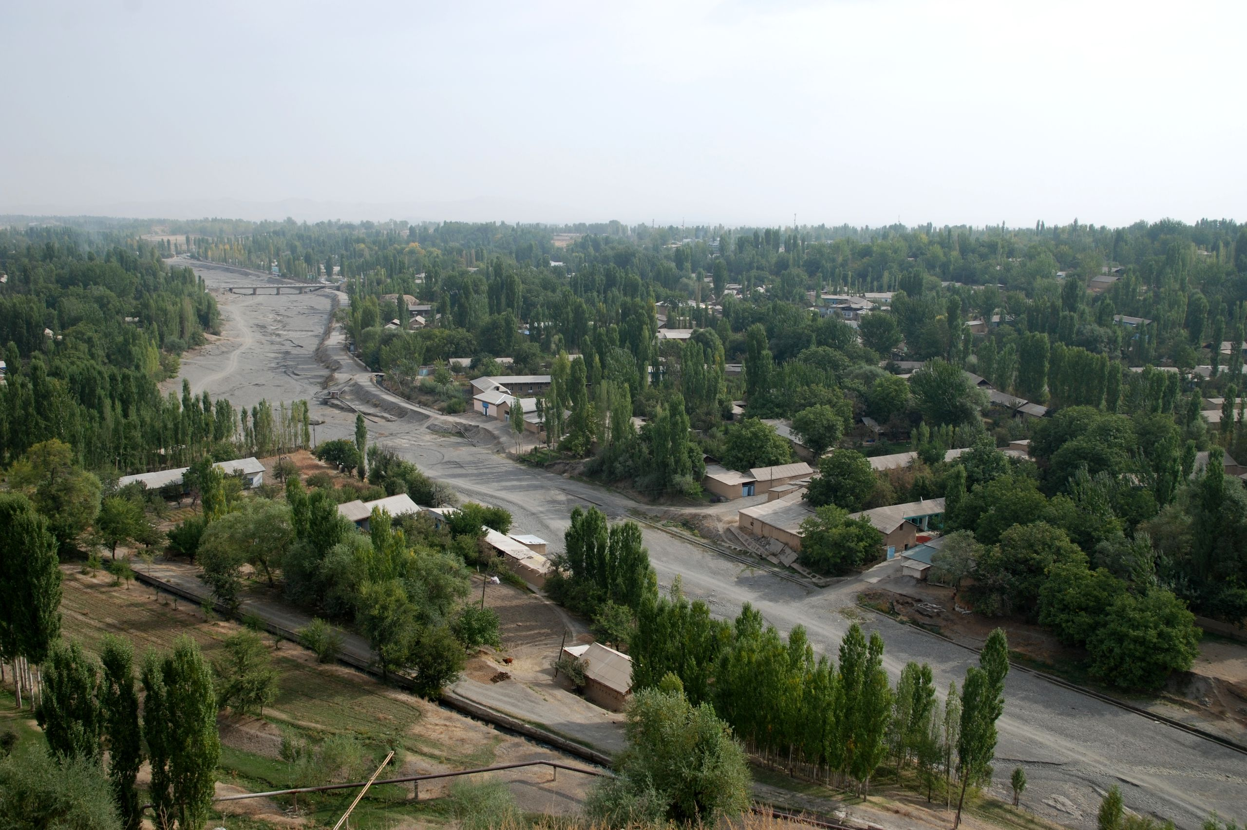 Shahristonsai, river in Shariston, Sughd province